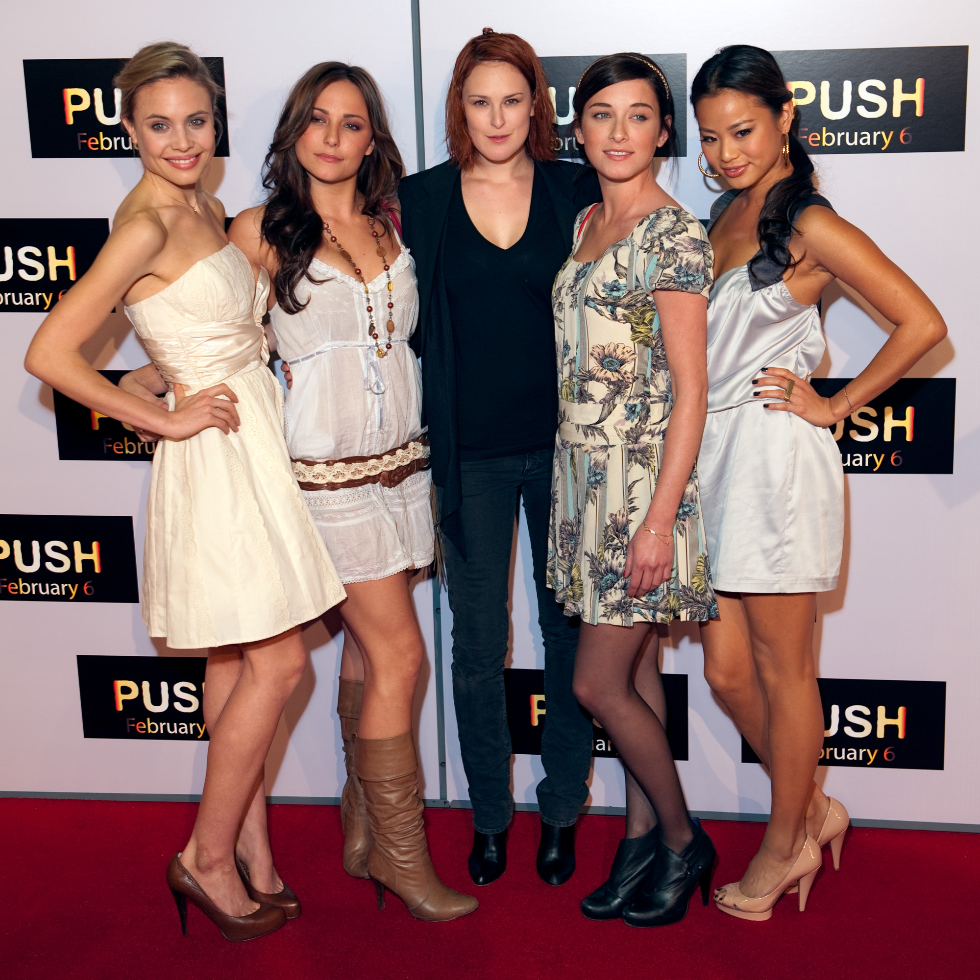 LOS ANGELES - JANUARY 29, 2009: The cast of Sorority Row arrives for the premiere of "Push", Mann Theater, Westwood. Left to right: Leah Pipes, Briana Evigan, Rumer Willis, Margo Harshman, Jamie Chung.